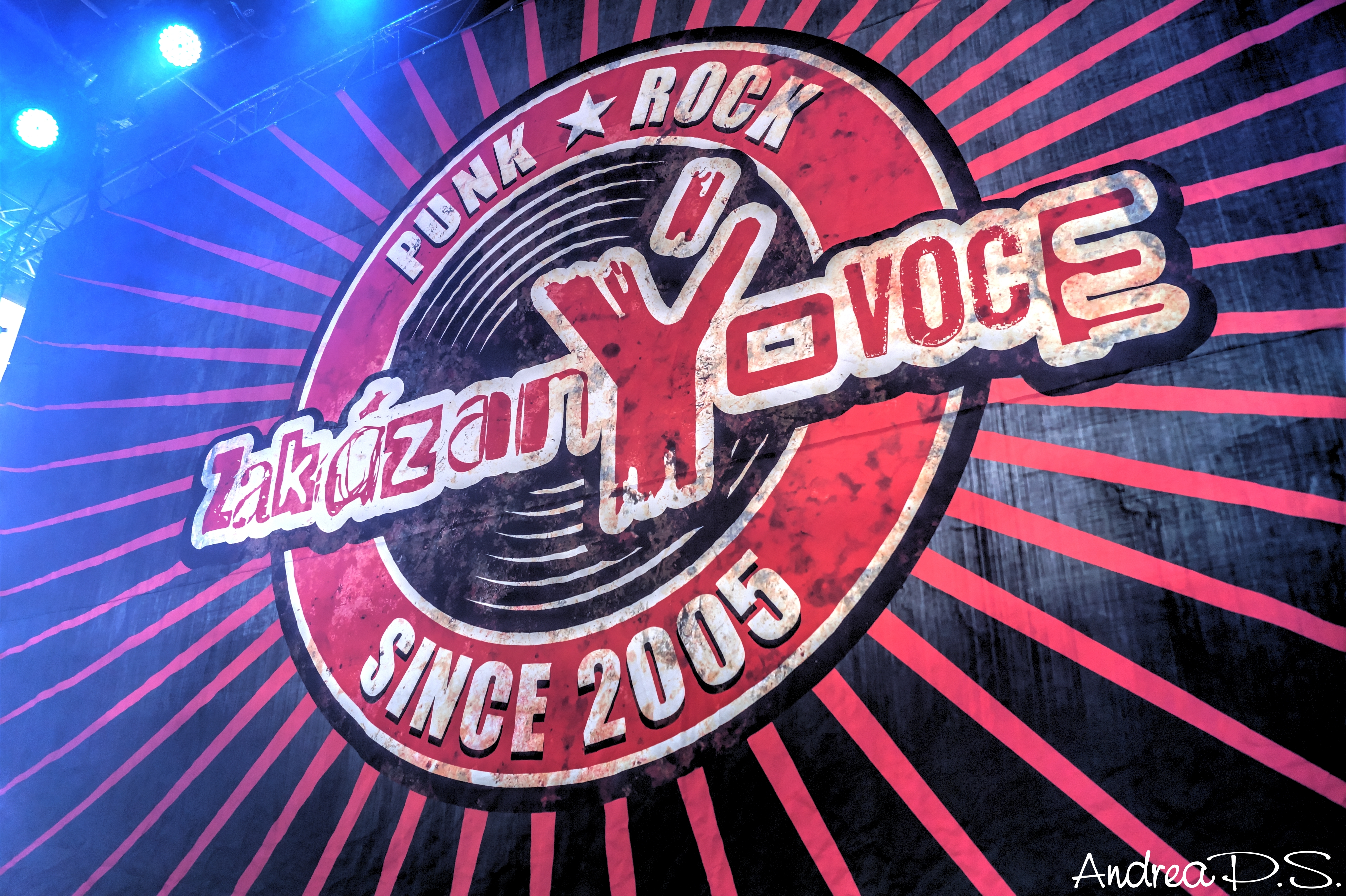 foto: Andrea Sládečková zakázanÝovoce - Magmafest 2016